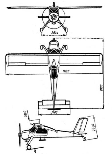 The scheme Vilga-35 aircraft